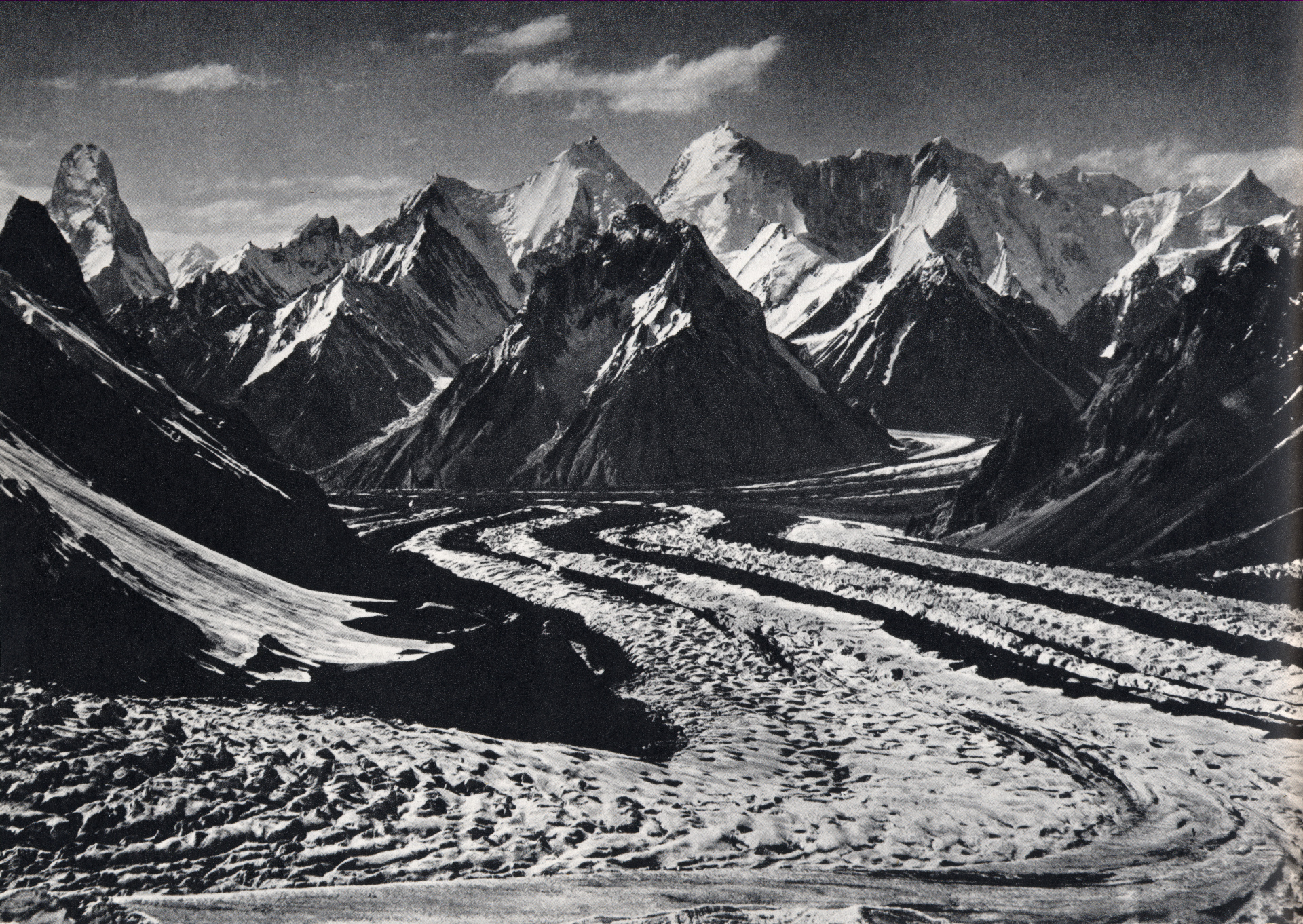 View from Upper Baltoro glacier towards Muztagh Tower (far left) and Skil Brum (center right). Photograph by Vittorio Sella (1859 – 1943) during the Italian K2 expedition led by Luigi Amedeo, Duke of the Abruzzi in 1909.